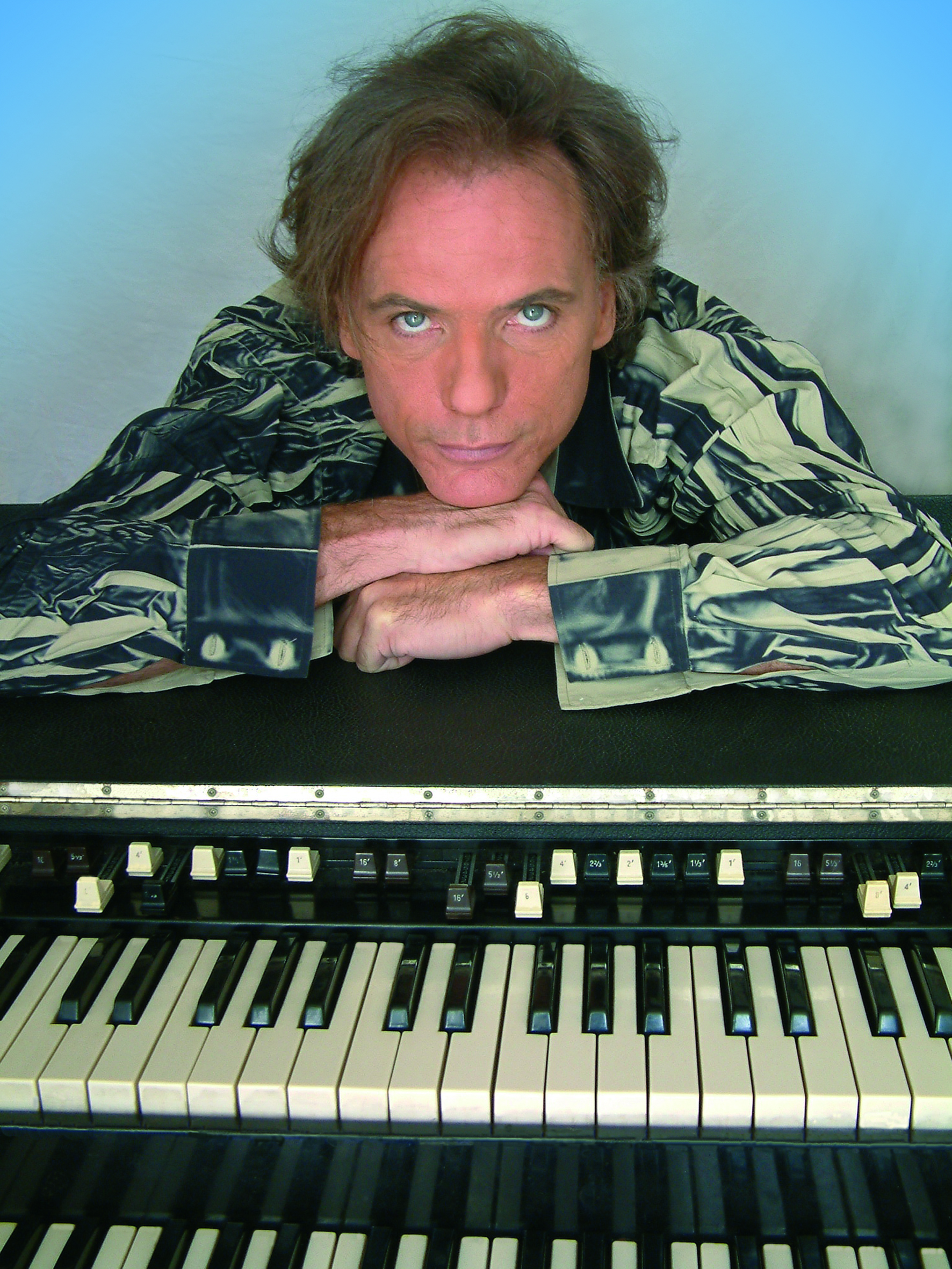 Emmanuel Bex